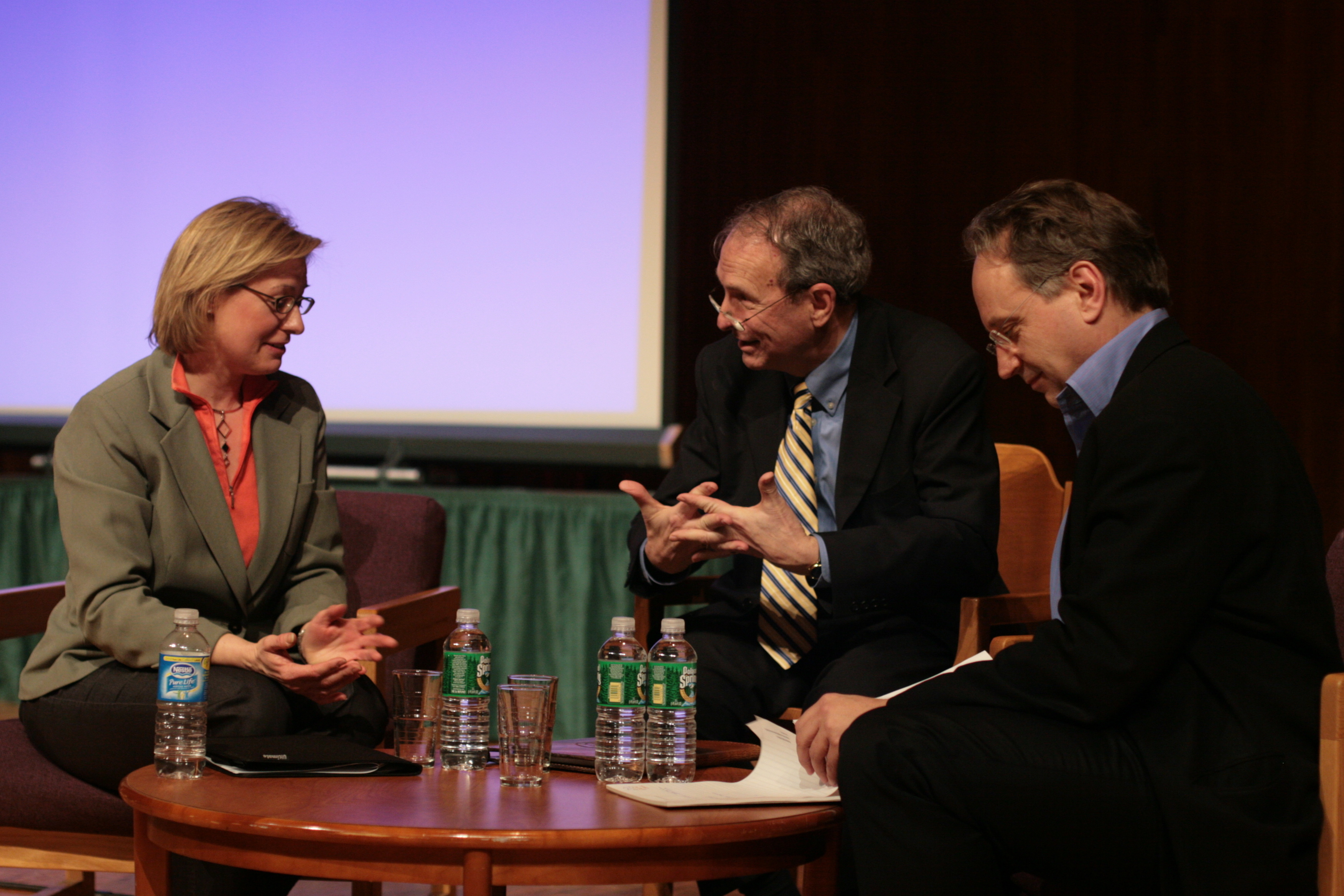 Dad moderates the Veritas Forum - Science, Faith, and Technology session on Living Machines: Can Robots Become Human? Participants: Rodney Brooks, Director - Computer Science and Artificial Intelligence Laboratory, MIT. Rosalind Picard, Founder and Director - Affective Computing Research Group, MIT.